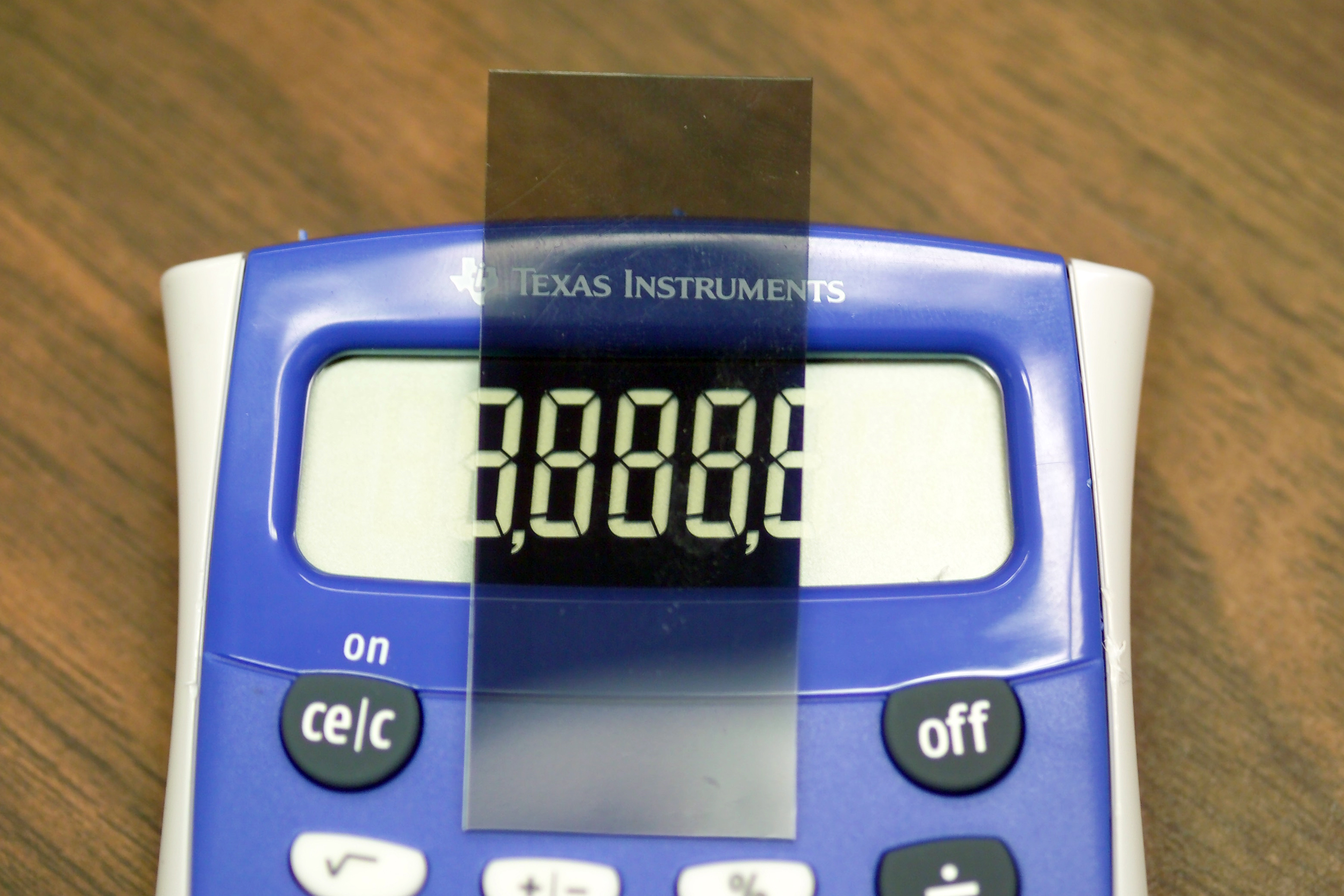 LCD with top polarizer removed and turned